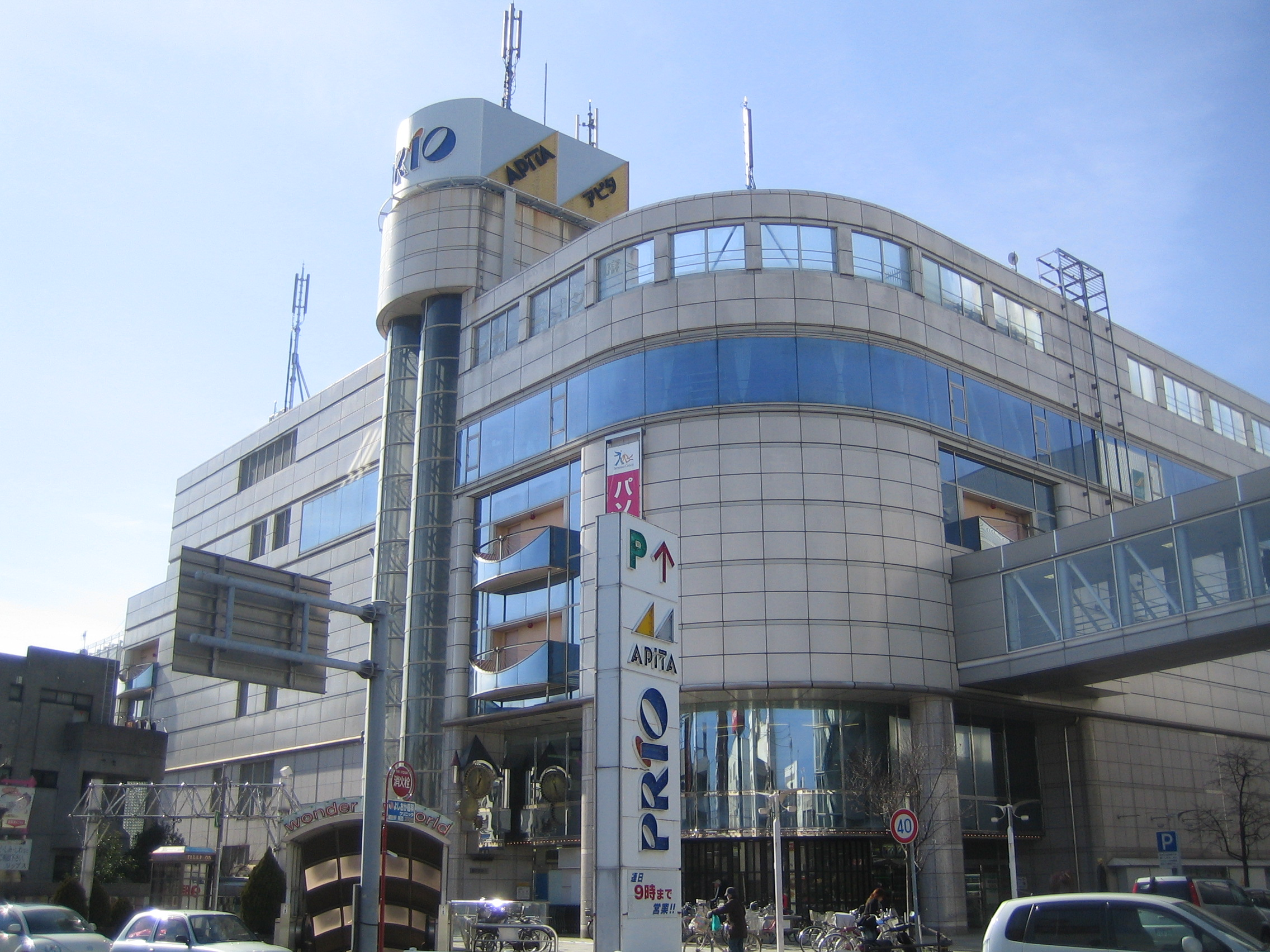 Shopping center "PRIO", located at Suwa, Toyokawa, Aichi, Japan